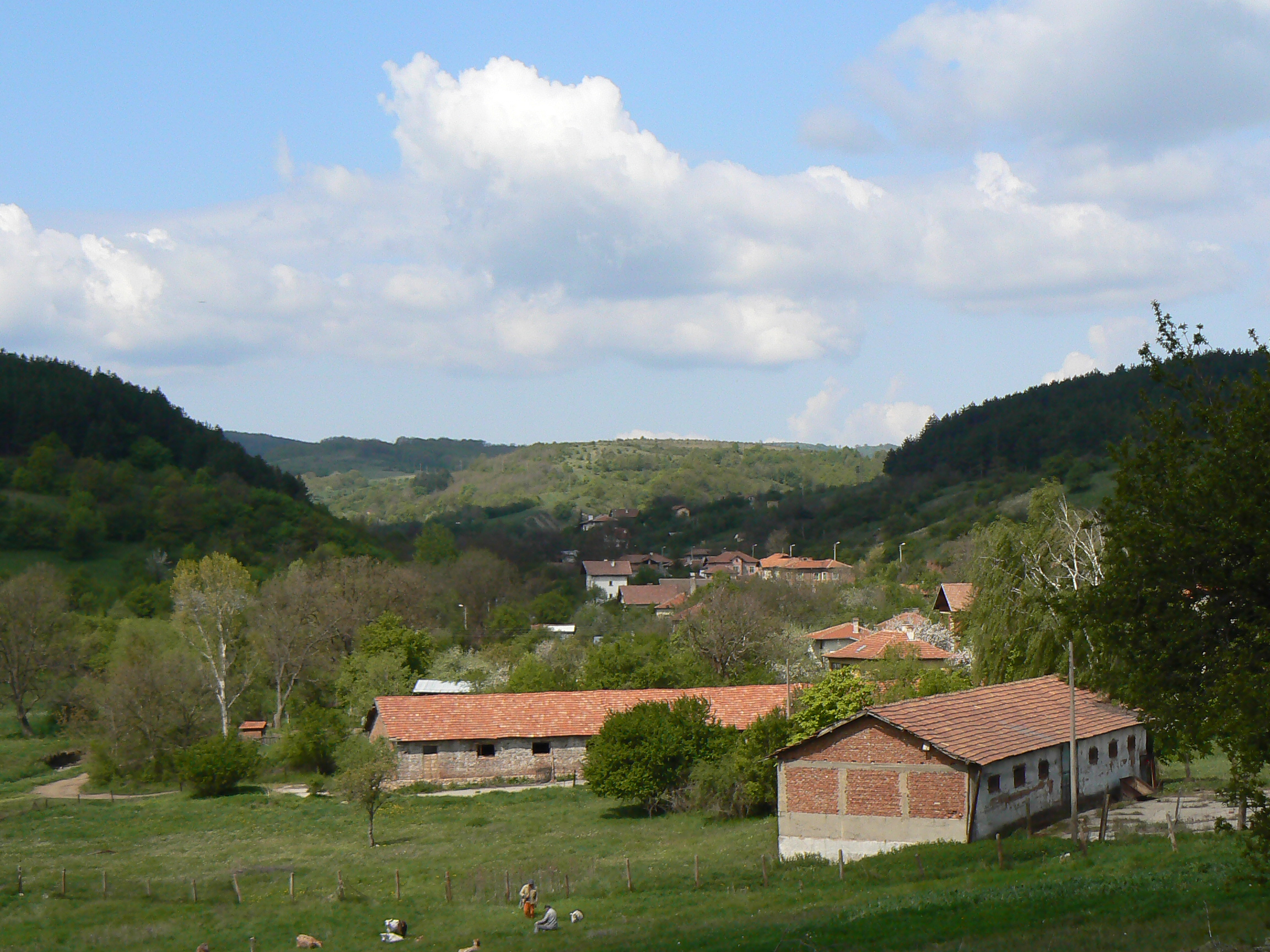 View towards village Leskovets, Pernik district, Bulgaria